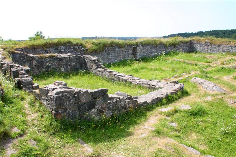 The ruins of the castle near Kungahälle in Sweden. The castel was build by the king of Norway Håkon IV Håkonsson in the 12. century